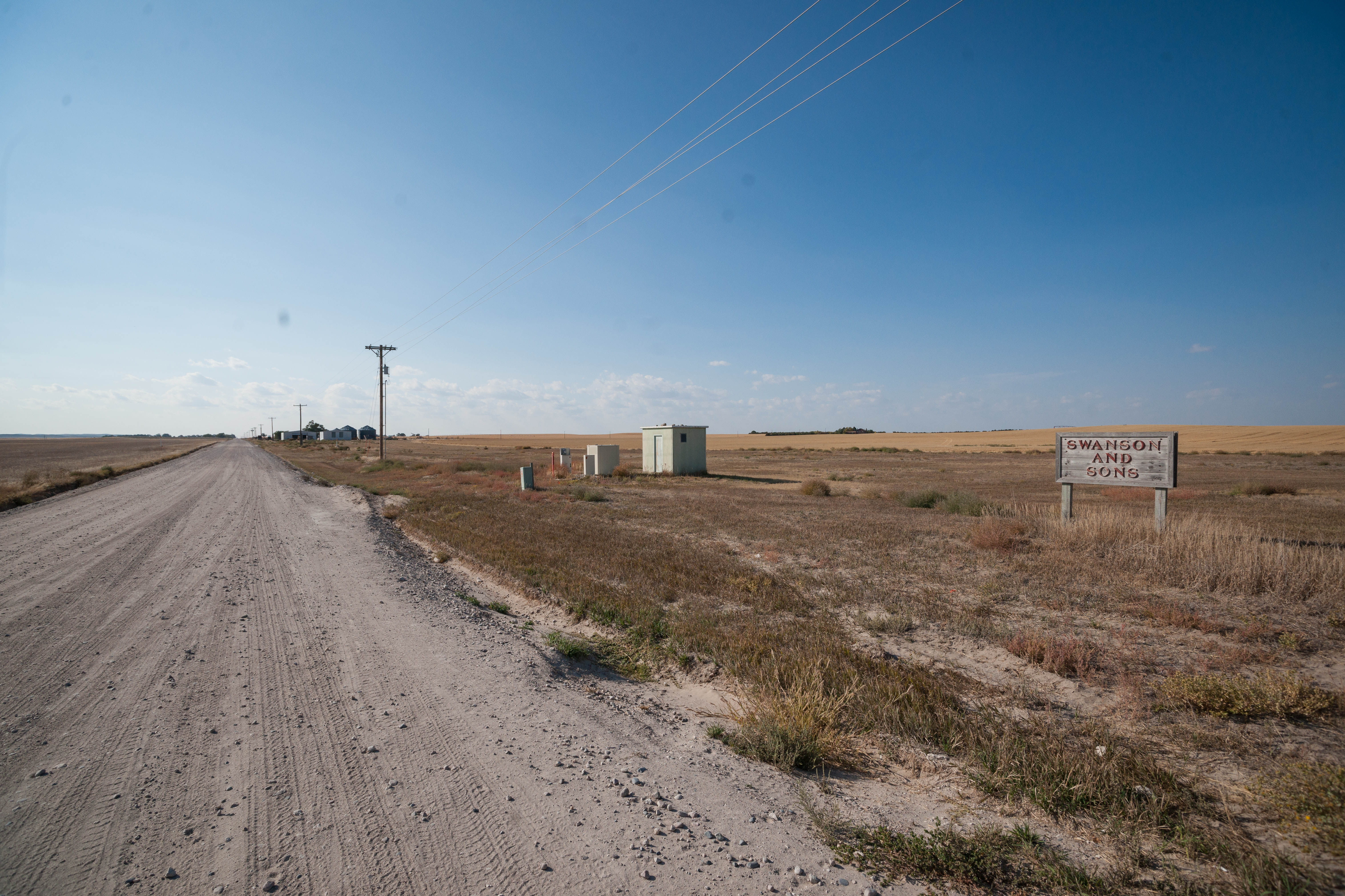 From